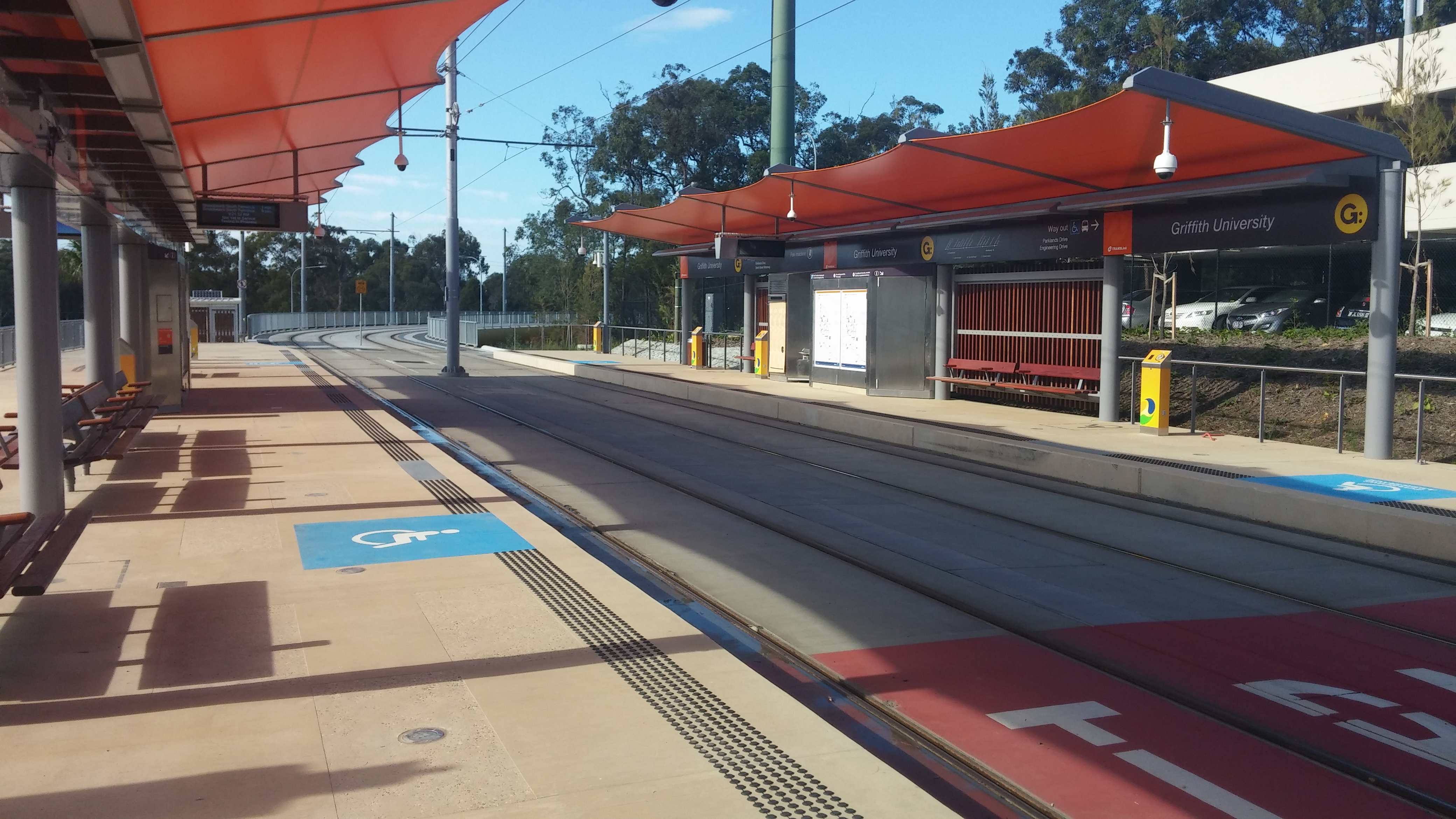 The completed light rail station at Griffith University on the Gold Coast.